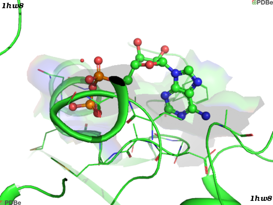 Cartoon representation of the molecular structure of protein registered with 1hw9 code.